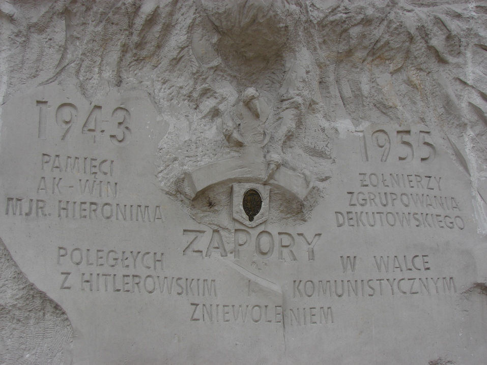 Hieronim Dekutowski Monument by Lublin Castle in Lublin, Poland